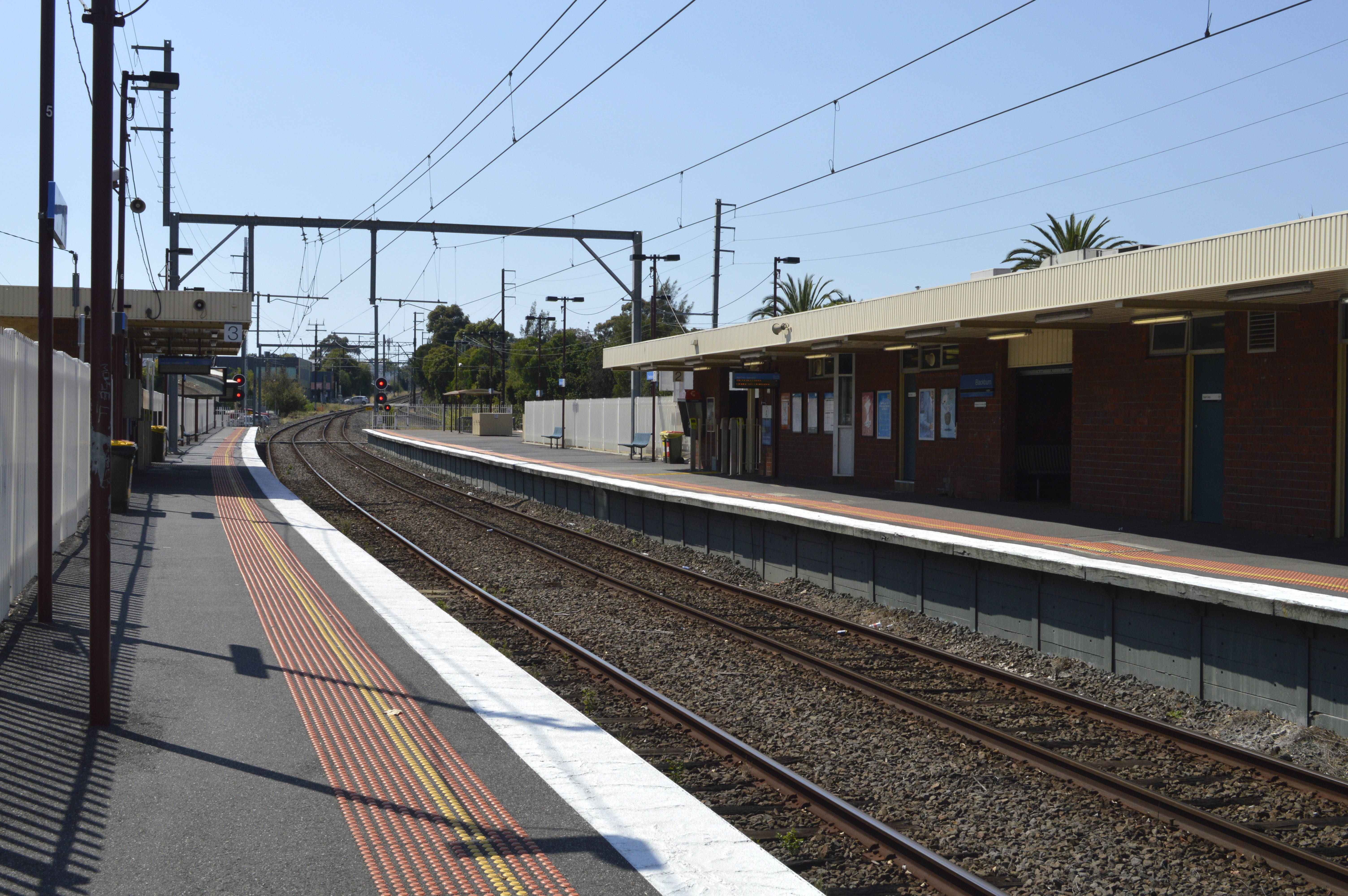 Looking east towards Ringwood.